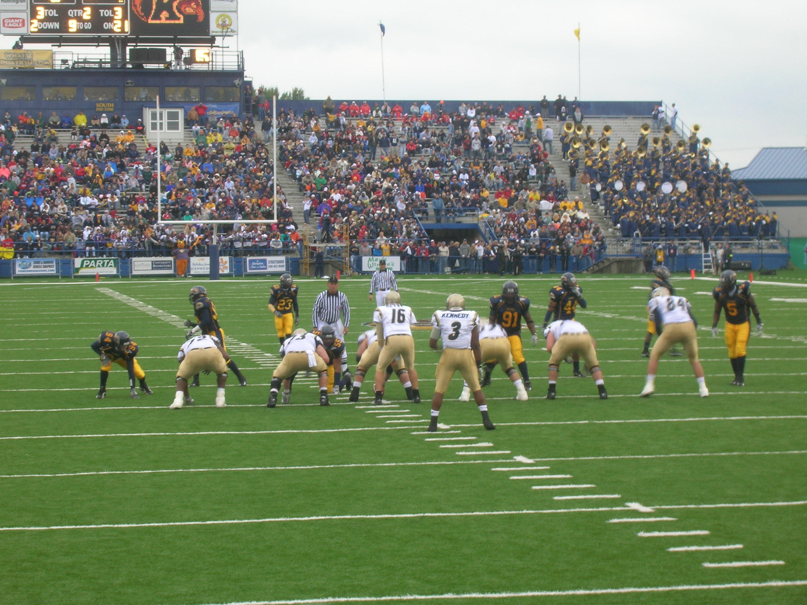 This photograph is from the portfolio of Jason DuVall. It was taken on September 30, 2006, at Dix Stadium on the campus of Kent State University in Kent, Ohio at a football game between the Kent State Golden Flashes and the Akron Zips. In the background is the south end zone of Dix Stadium, which was demolished in February 2008. The south end zone seats were originally built in 1954 as the north sideline grandstand at Memorial Stadium before being moved to Dix Stadium in 1969.